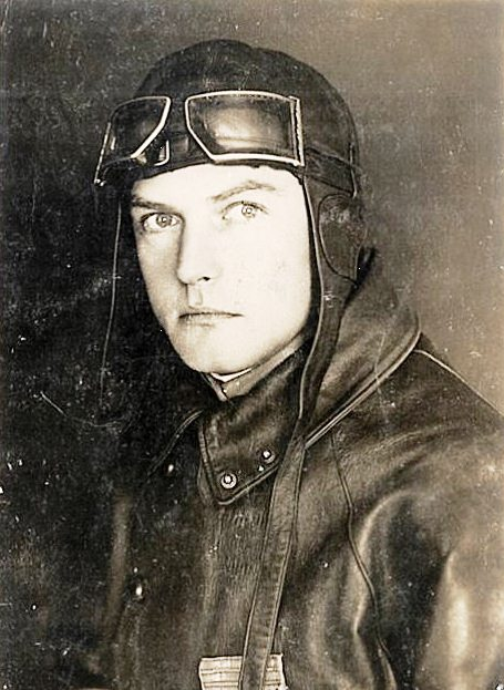 France Pirc (1899-1954), Slovene aviator and general